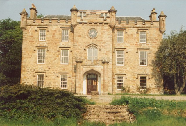 Teaninich House This fine house was the seat of the Munro's of Teanninich. It was built by Hugh Munro and is now a high quality restaurant. One of its previous owners, American Charles Harrison, was reputed to be the inspiration for Francis Hodgeson Burnett's book Little Lord Fauntleroy.